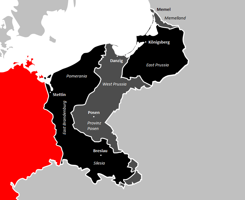 Former eastern territories of Germany, close-up. Present-day Germany in red, land lost after WW2 in black, land lost after WW1 in dark gray. Territory lost after World War I Territory lost after World War II Present-day Germany